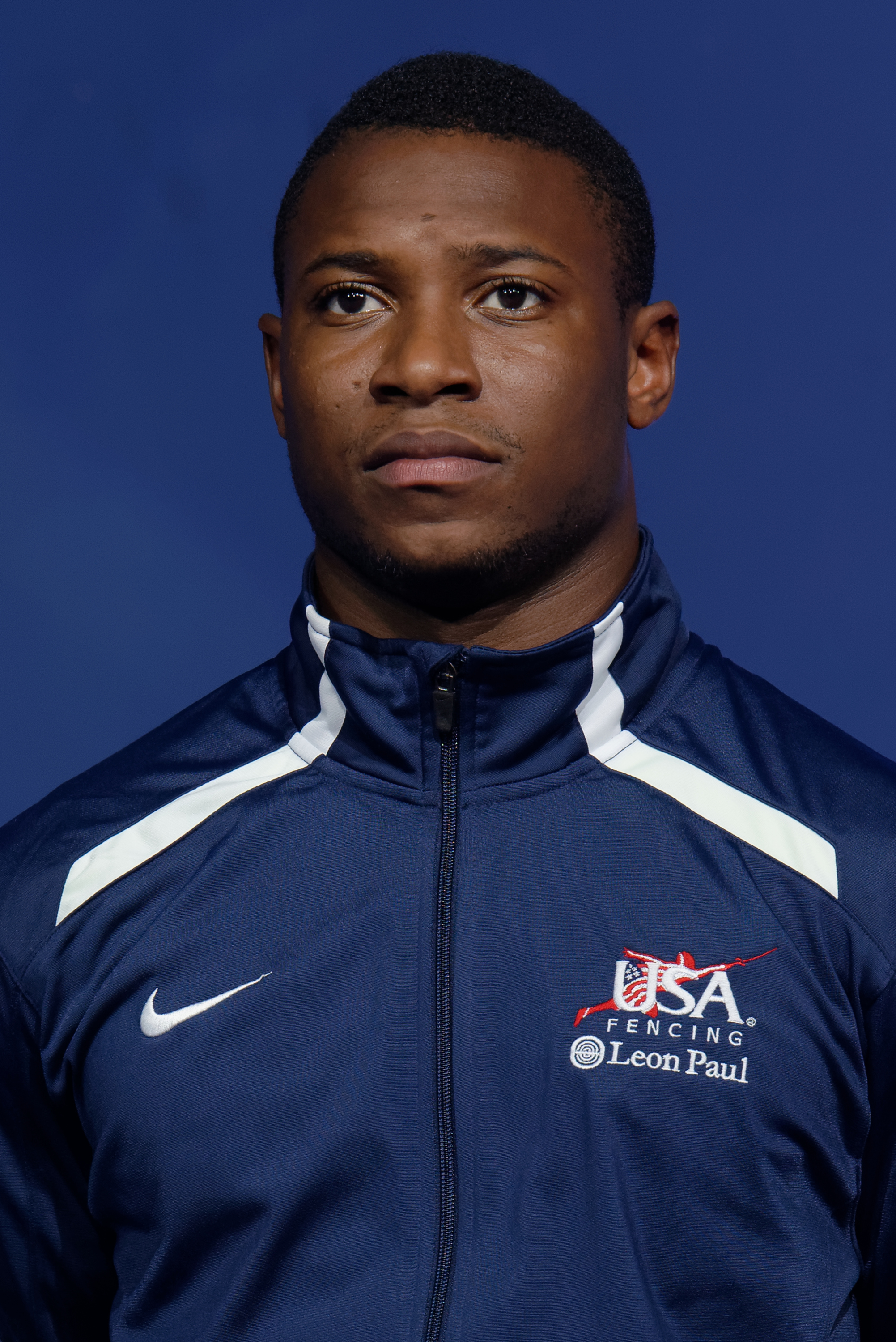 The USA's Daryl Homer at the medal ceremony for men's sabre at the 2015 World Fencing Championships on 14 July 2014 at the Olympic Stadium in Moscow.